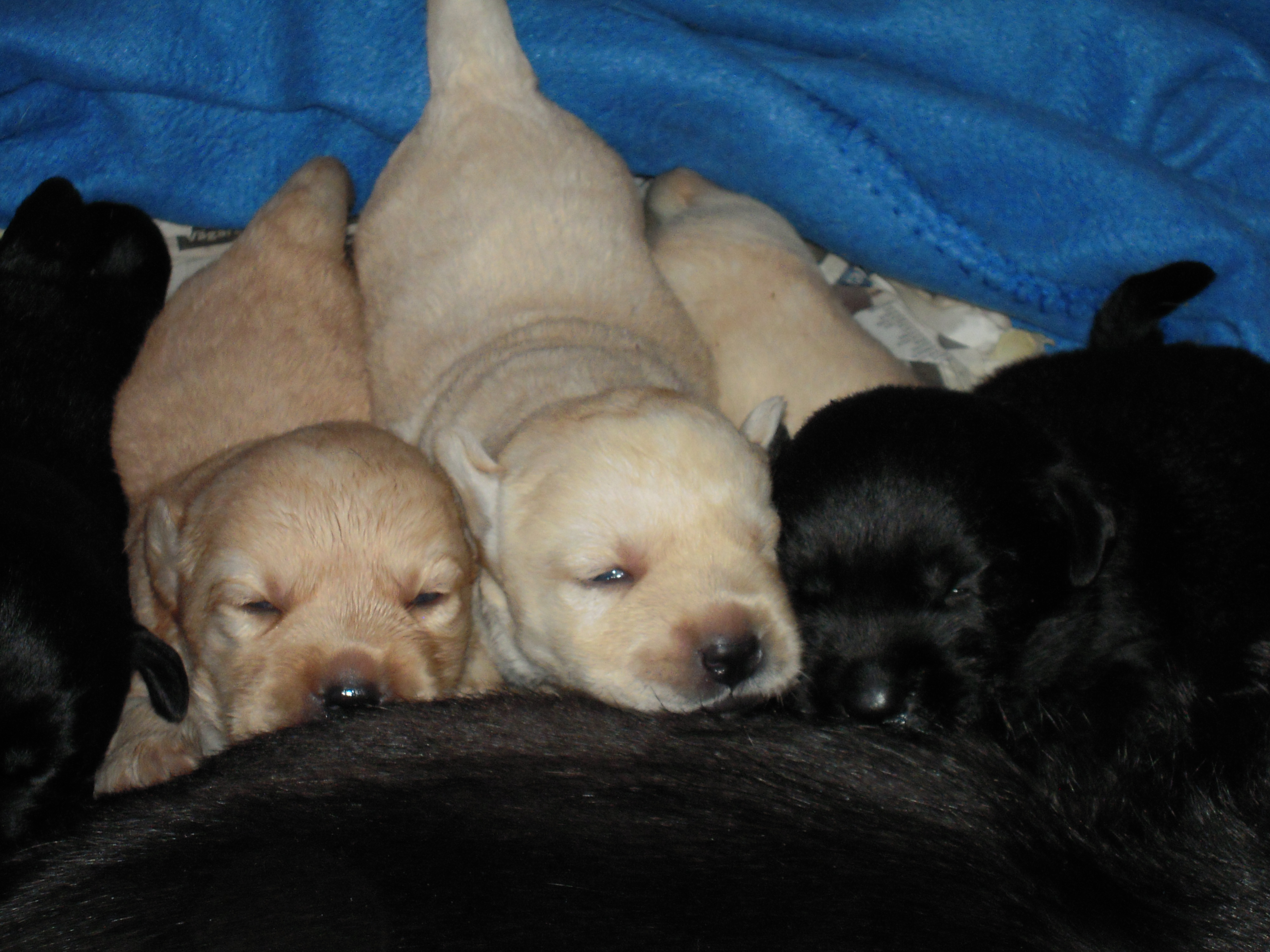 Three yellow two black